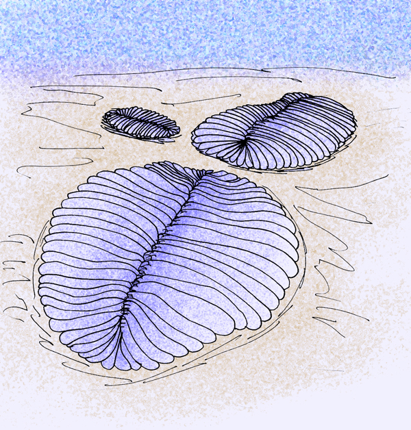 A trio of the bizarre Vendazoan, Dickinsonia costata, of Precambrian Australia (C) Stanton F. Fink